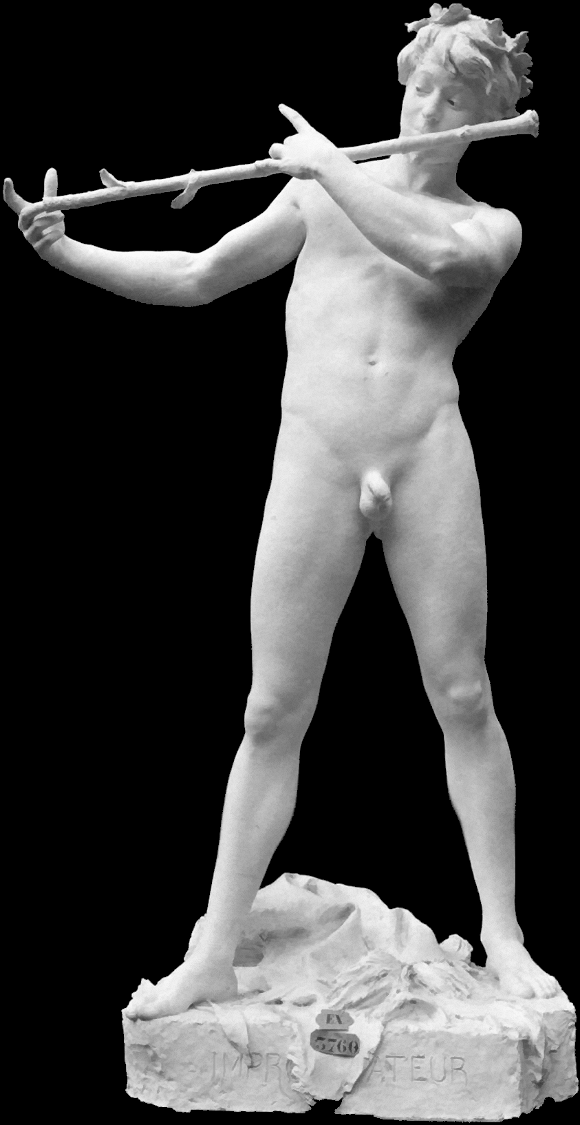 Old photo of statue "L'Improvisateur" by Félix-Maurice Charpentier. This appears to be the plaster version; the finished statue was executed in bronze. This is a retouched picture, which means that it has been digitally altered from its original version. Modifications: Cropped to remove extraneous background; original dark background blacked out; brightness and contrast adjusted; jpeg artifact removal; minor noise reduction; minor spot removal; converted from sepia original to greyscale png. Modifications made by Lee M.